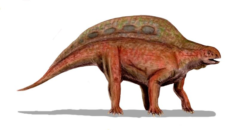 Lotosaurus adentus, a middle Triassic archosaur from China, pencil drawing, digital coloring